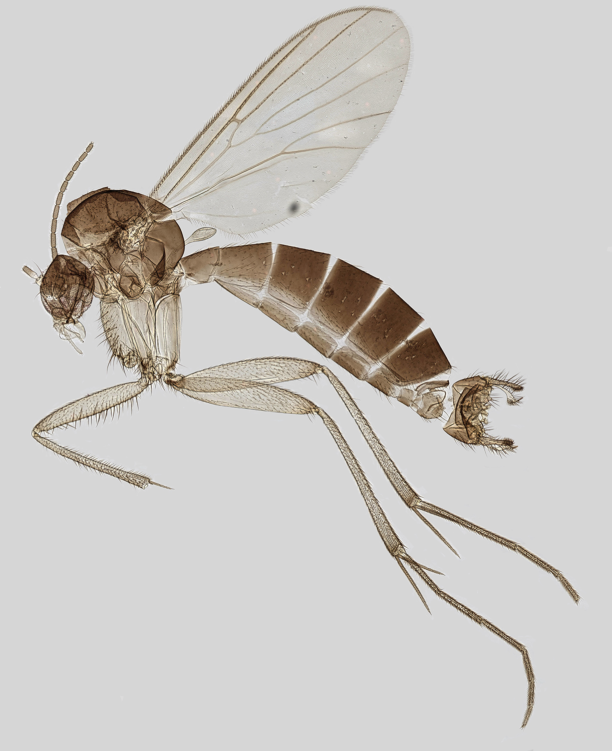 Anatella ciliata, Trawscoed, North Wales, Sept 2014